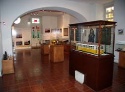 Interior do Museu